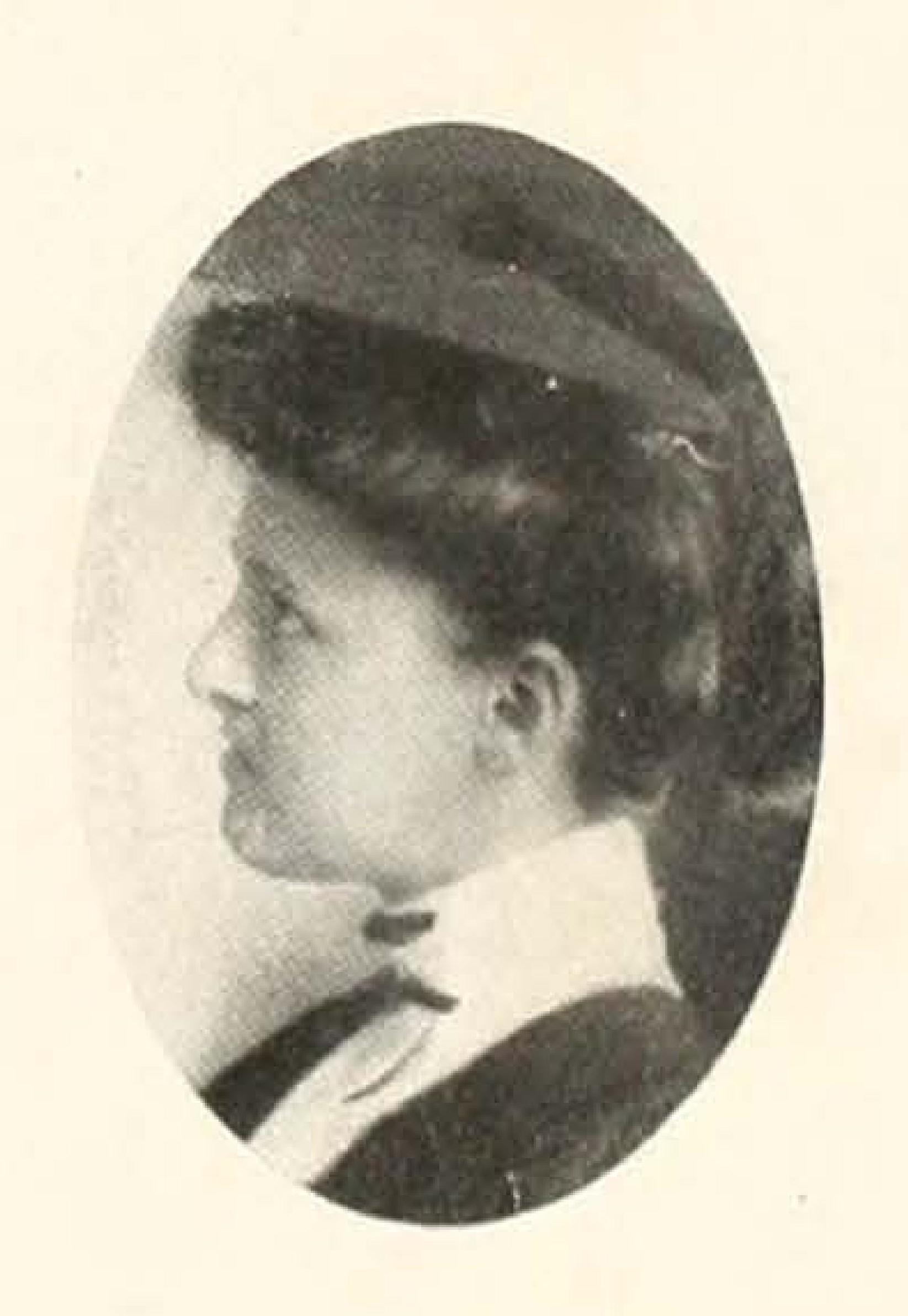 University of Texas Austin Cactus yearbook 1908